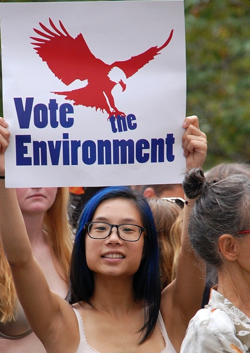 New York, 21 September 2014. Hundreds of thousands of protesters filled Central Park West on Sunday, demanding "system change, not climate change".